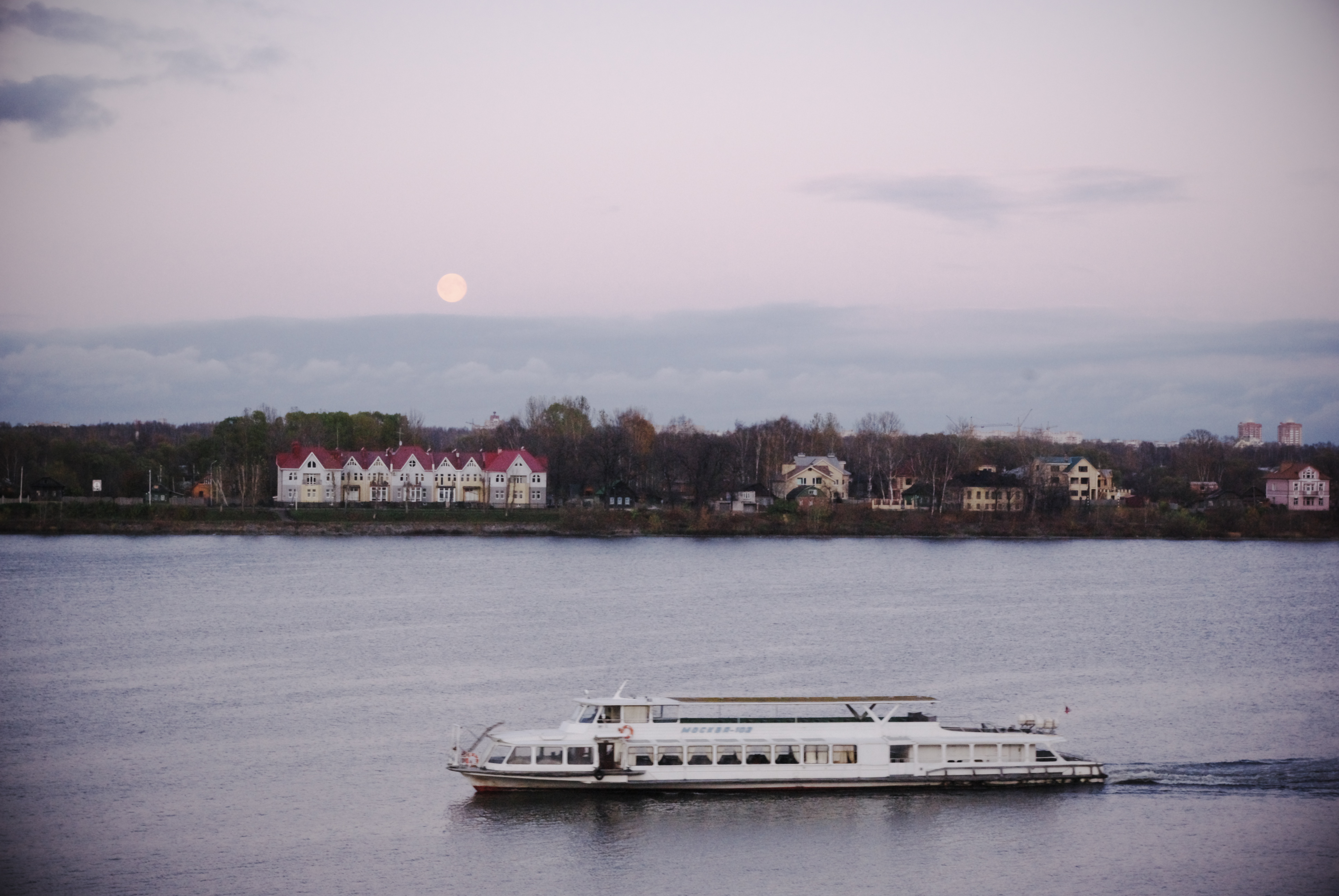 Volga river at Yaroslavl.